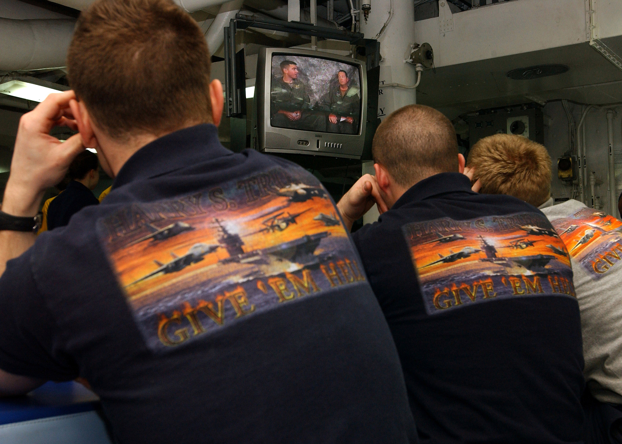 050120-N-5345W-027 Persian Gulf - Food Service Attendants aboard the Nimitz-class aircraft carrier USS Harry S. Truman (CVN 75) watch the all-hands broadcast in the crew mess decks during a ship-wide safety stand down. Carrier Air Wing Three (CVW-3) is embarked aboard Truman and is providing close air support and conducting intelligence, surveillance and reconnaissance missions over Iraq. The Truman Strike Group is on a regularly scheduled deployment in support of the Global War on Terrorism.